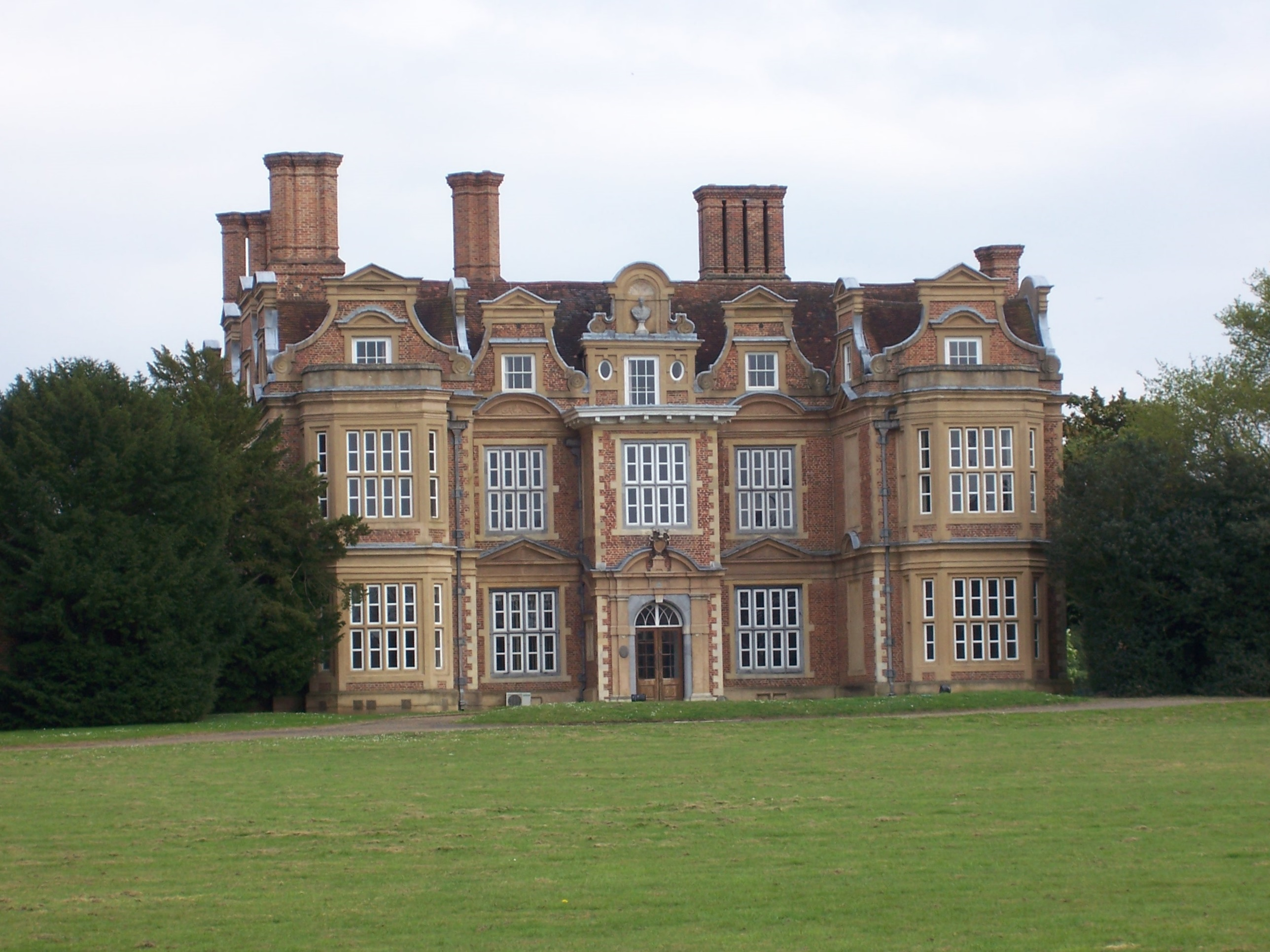 View of the western side of Swakeleys House in Ickenham